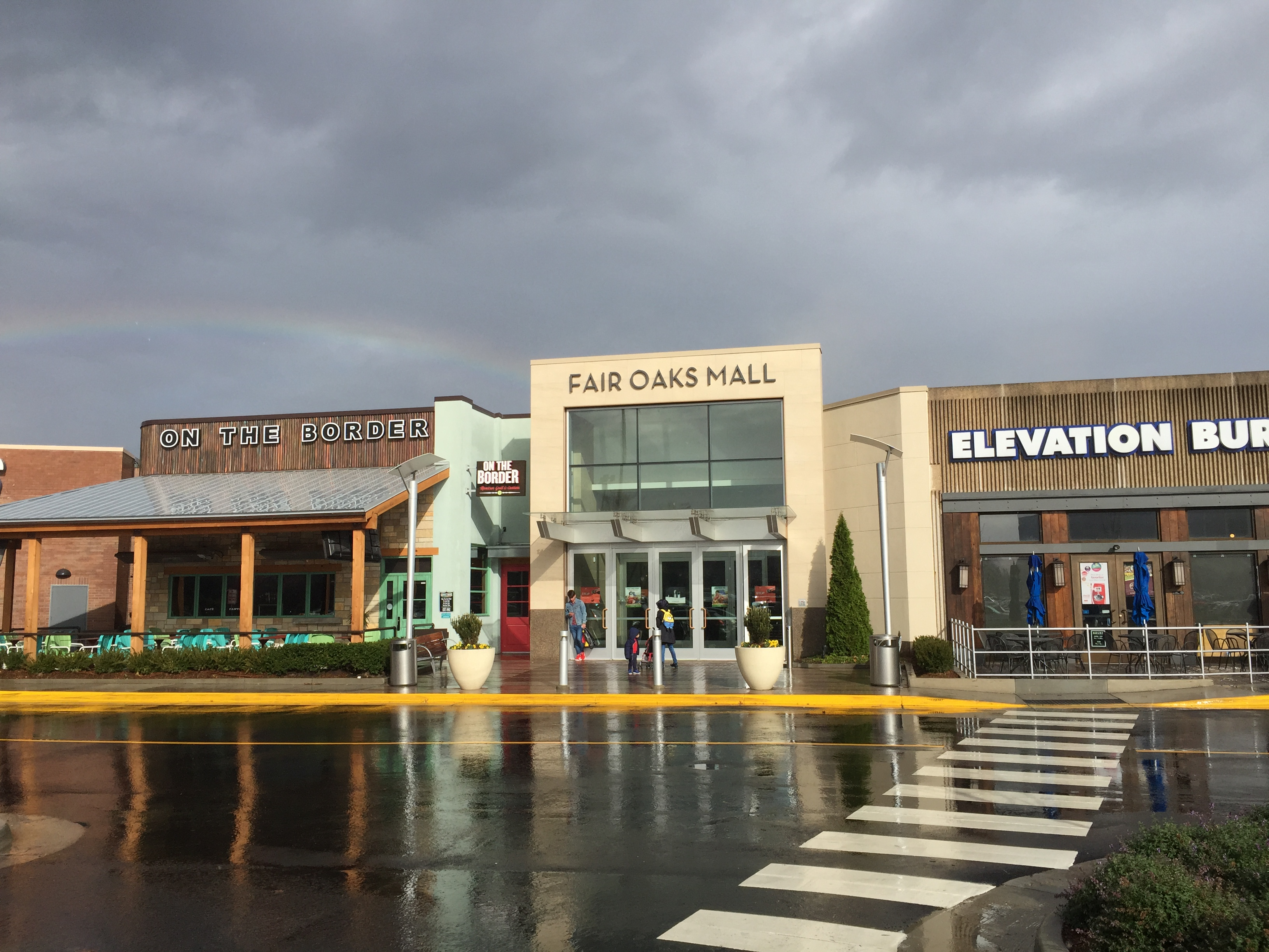 Entrance to the Fair Oaks Mall in Fair Oaks, Fairfax County, Virginia